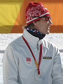 Ivan Alypov (1982), Russian cross-country skier (cropped from File:Team Sprint Podium Men 2006.jpg)